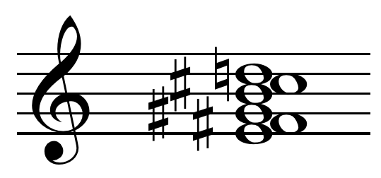 A thirteenth chord "collapsed" into one octave results in a dissonant, seemingly secundal[1] tone cluster. Created by Hyacinth (talk) 04:56, 3 July 2011 using Sibelius 5.